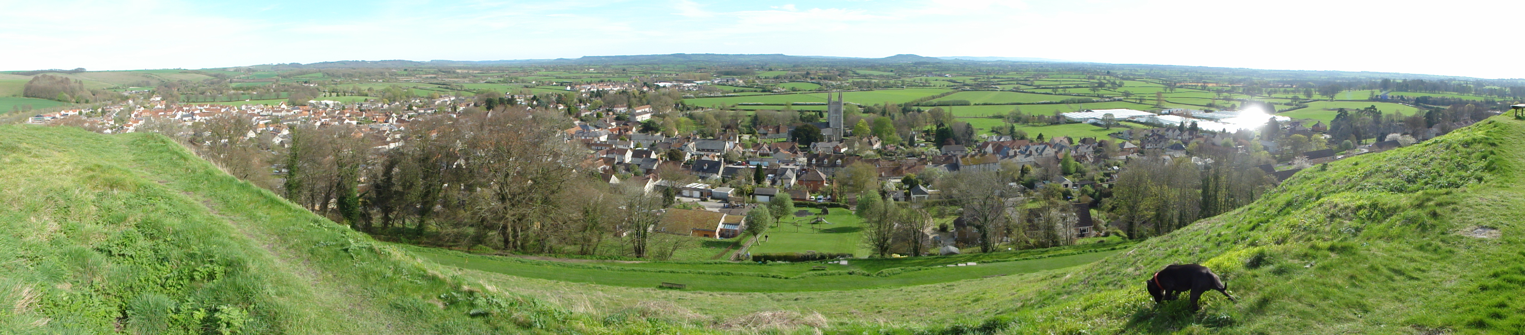 Panoramic view of Mere, Wiltshire, taken from Castle Hill in April 2011.